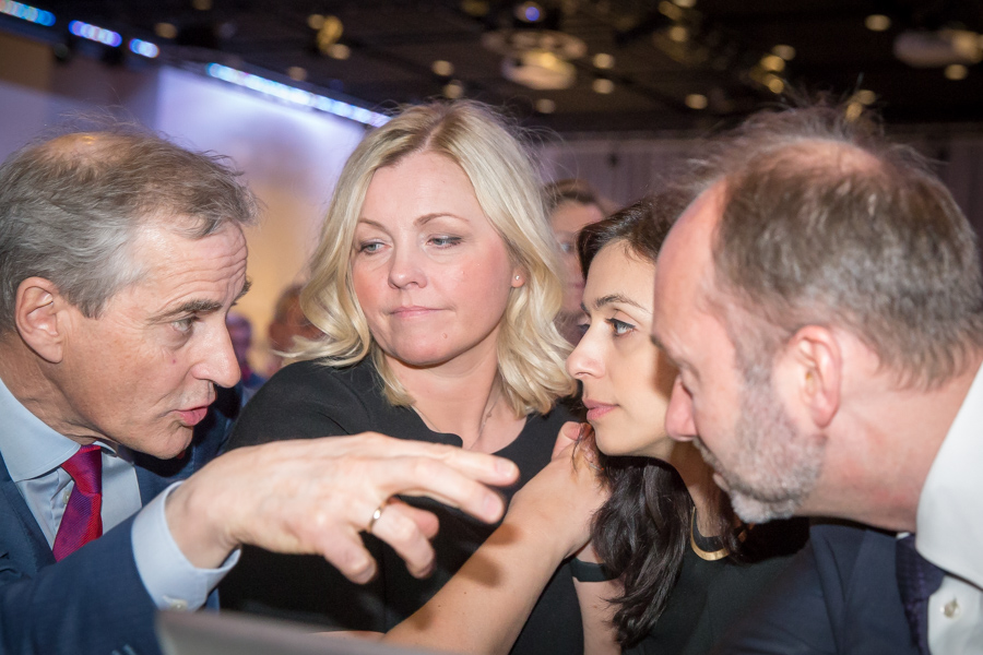 Leaders of Norway Labour party at the bi-yearly congress in 2017(Arbeiderpartiets landsmøte).